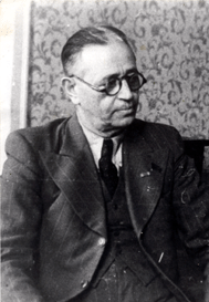 Üzeyir Hacıbəyov (d. 1948 - Azerbaijan)